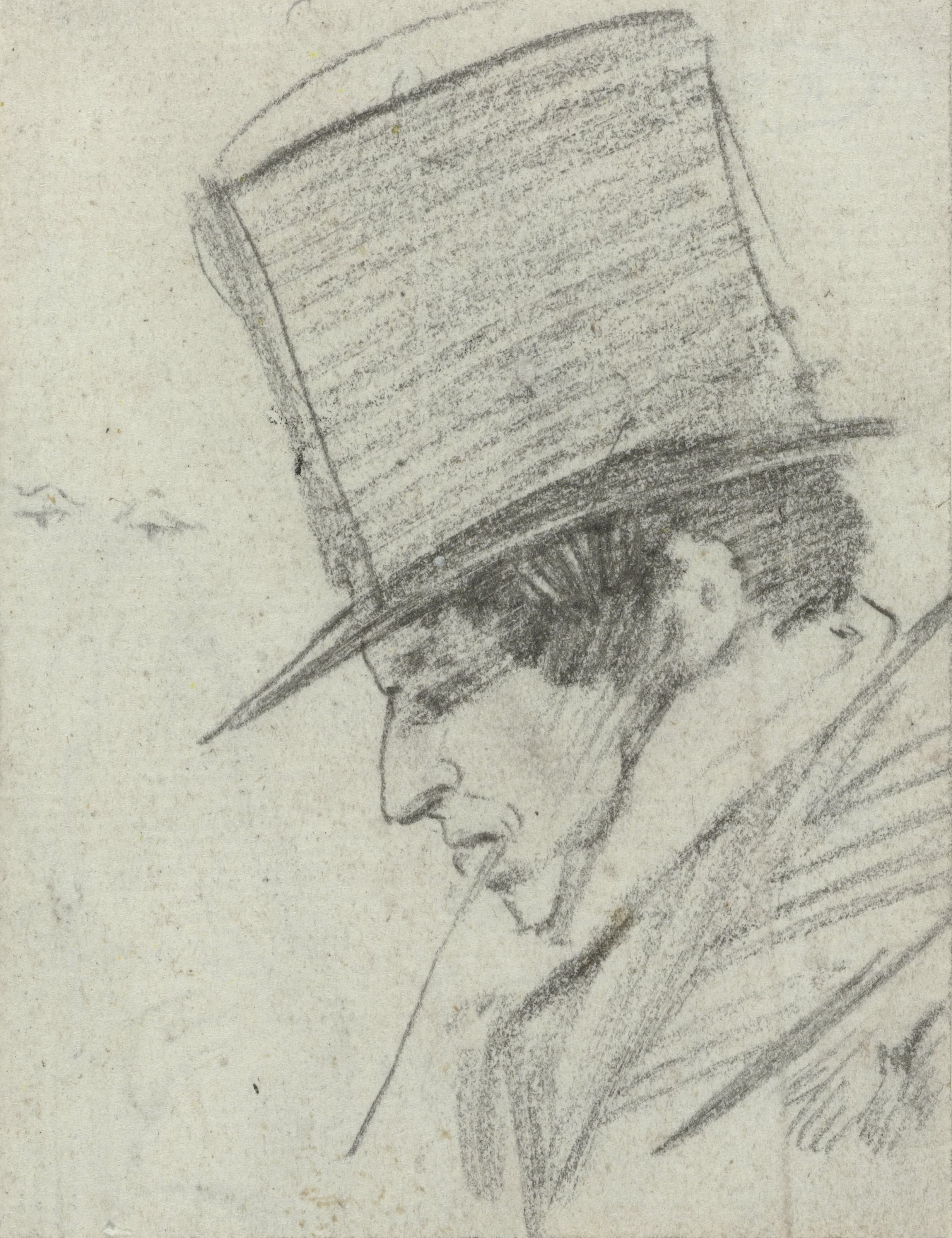 Portret van Jan Hendrik Verheijen, collectie Rijksmuseum